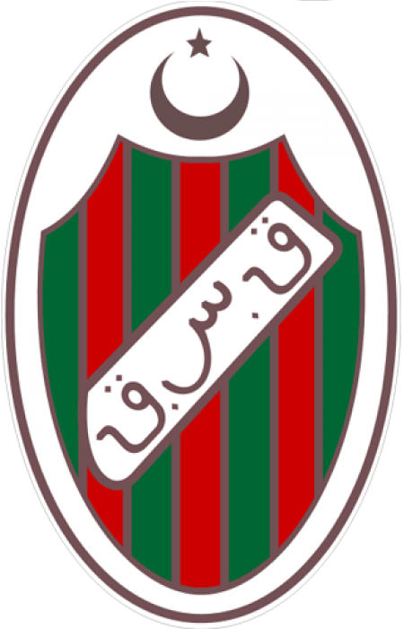 Old logo of Karşıyaka SK.